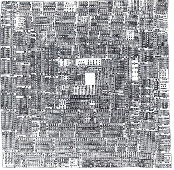 90x80cm Qing dynasty game chart for Shengguan Tu.